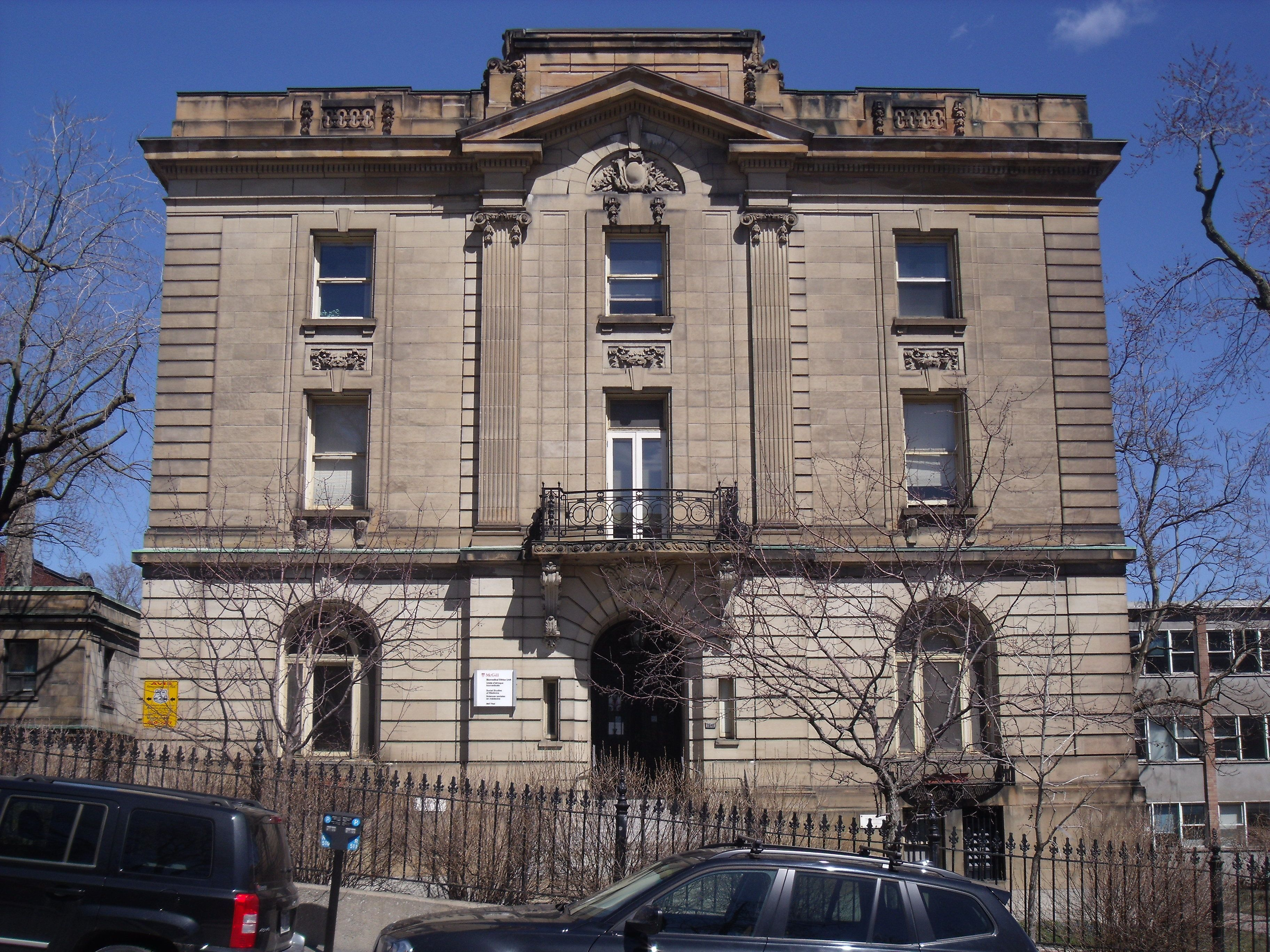 John Kenneth Leveson Ross House (1910), 3647 Peel Street, Montreal, Quebec, Canada.